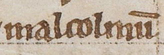 An excerpt from folio 13v of British Library Cotton MS Faustina B IX (the Chronicle of Melrose). The excerpt refers to Máel Coluim (fl. 1054), son of an unnamed King of the Cumbrians. The excerpt reads in Latin: "Malcolmum".